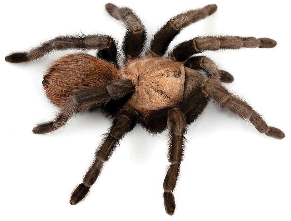 Aphonopelma anax female